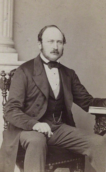 Albert of Saxe-Coburg and Gotha (1819-1861), Prince consort of the United Kingdom